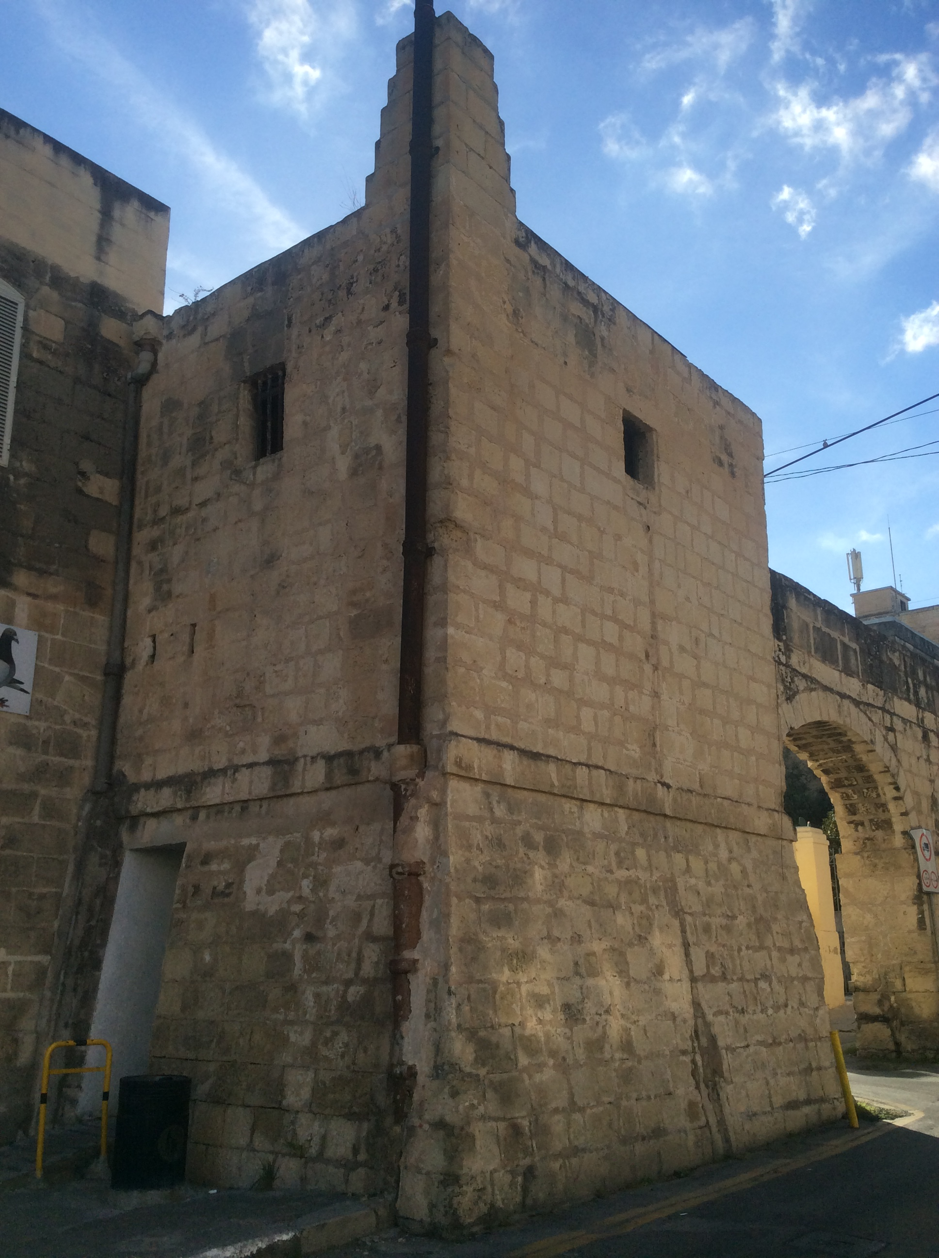 Guard Tower St Venera